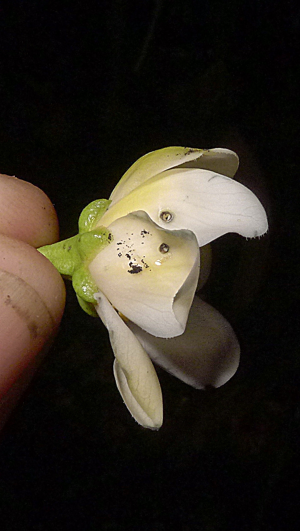 Lecythis marcgraaviana Miers